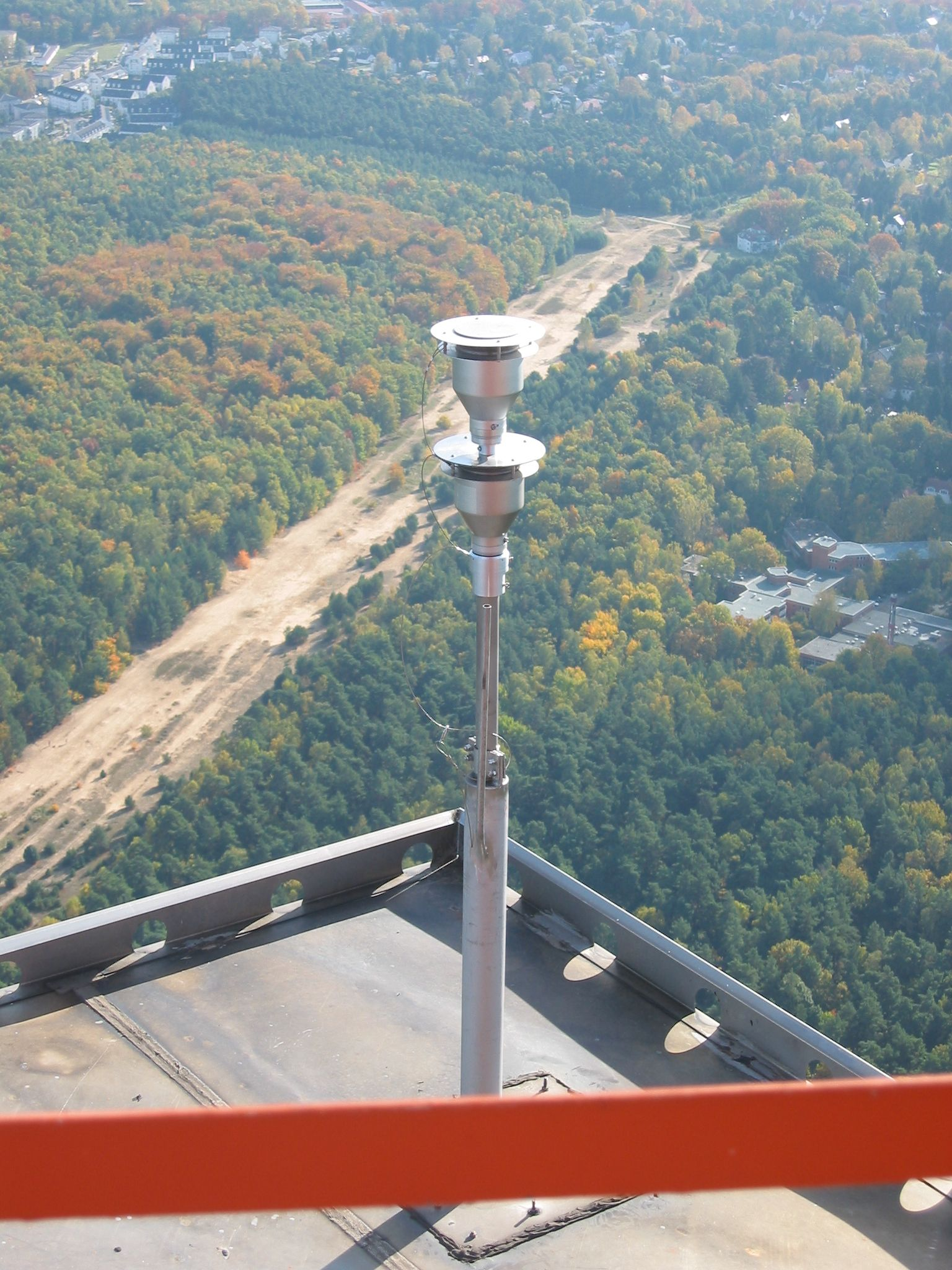 Two stacked total suspended matter (TSP) heads an the Frohnauer Turm used for a PM2.5 measurement campaign by the TU Berlin for the Senate of Berlin